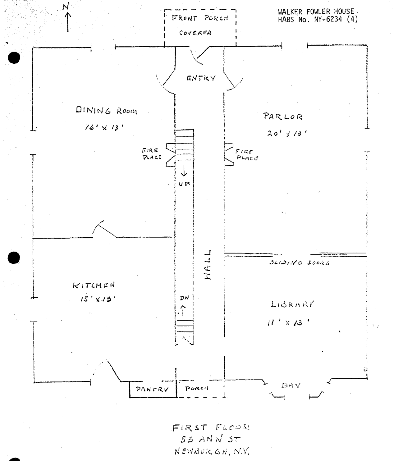 A sketch of the first floor of the James Walker Fowler House in Newburgh, New York. From the HABS.